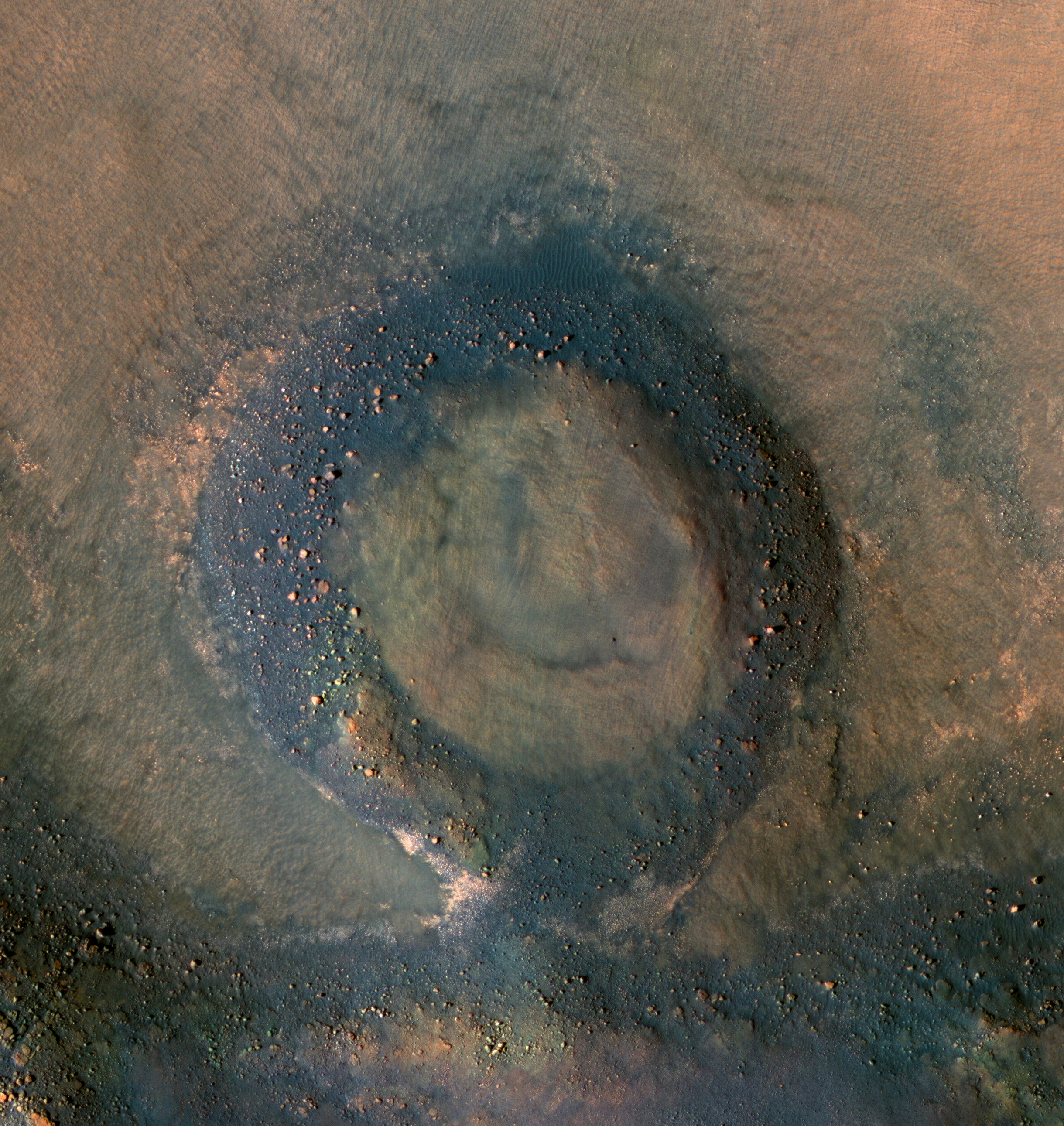 Eye of the Beholder ESP_028957_2085 Science Theme: Sedimentary/Layering Processes Nilosyrtis Mensae is an ancient terrain with a wonderful variety of landforms and rock types. What is this circular landform? It probably got its shape from an impact crater long ago, but was subsequently eroded and filled in and eroded again, so that now it is a low mesa surrounded by a boulder-rich geologic unit.